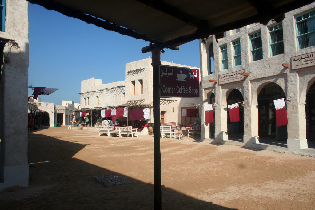 The Souq Waqif, located in the heart of Doha, an area of shops that reflects ancient Arabian culture and tradition.